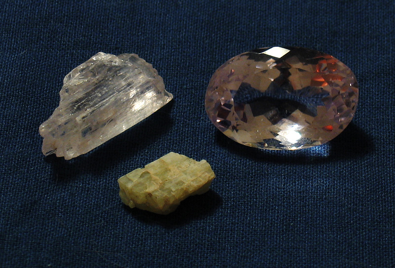 Spodumene. An almost colourless kunzite crystal (upper left), a cut pale pink kunzite (upper right) and a greenish hiddenite crystal (below)